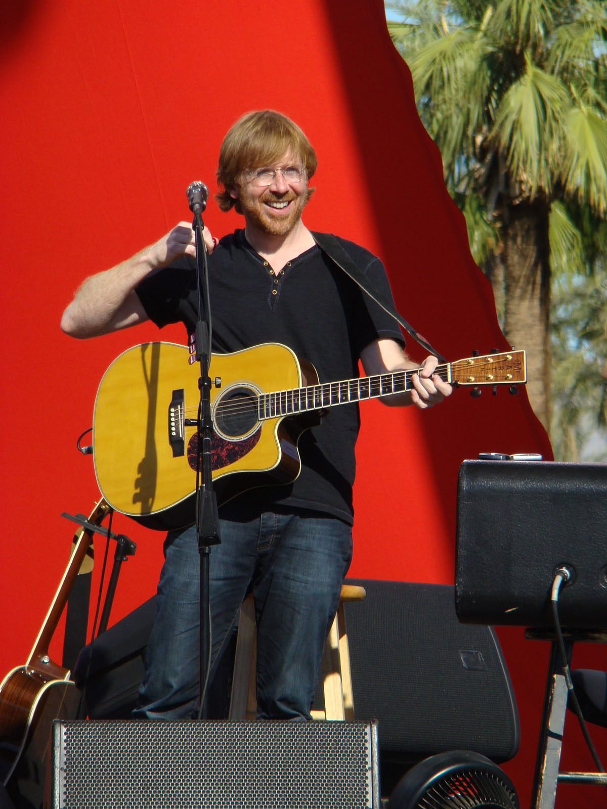 Phish 2009-11-01 Festival 8 Indio, CA Empire Polo Club - Acoustic Set - Trey Anastasio